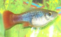 Sunset Variatus Platy female (taken by me)